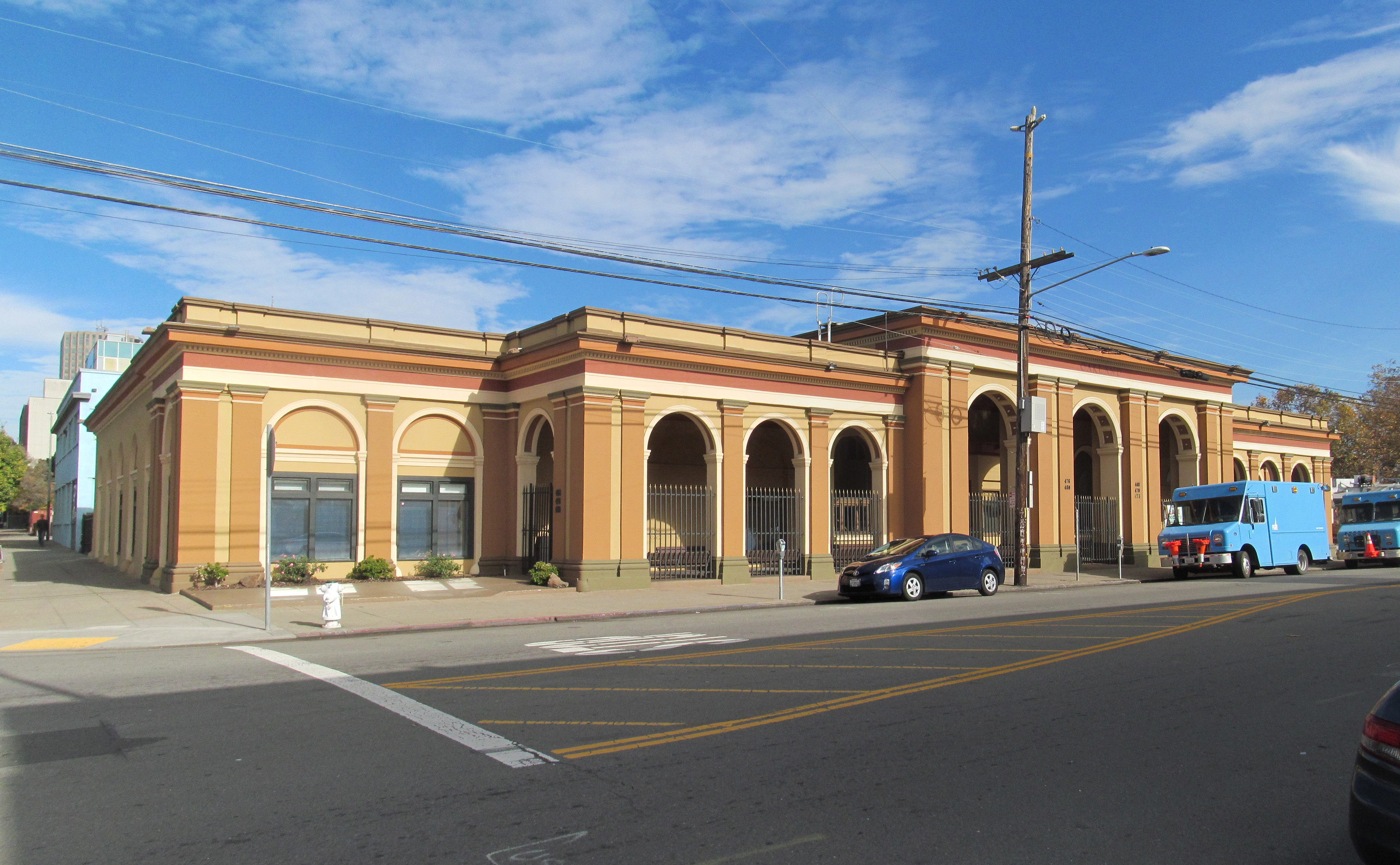 The former Western Pacific Railroad 3rd Street station in Oakland in November 2017